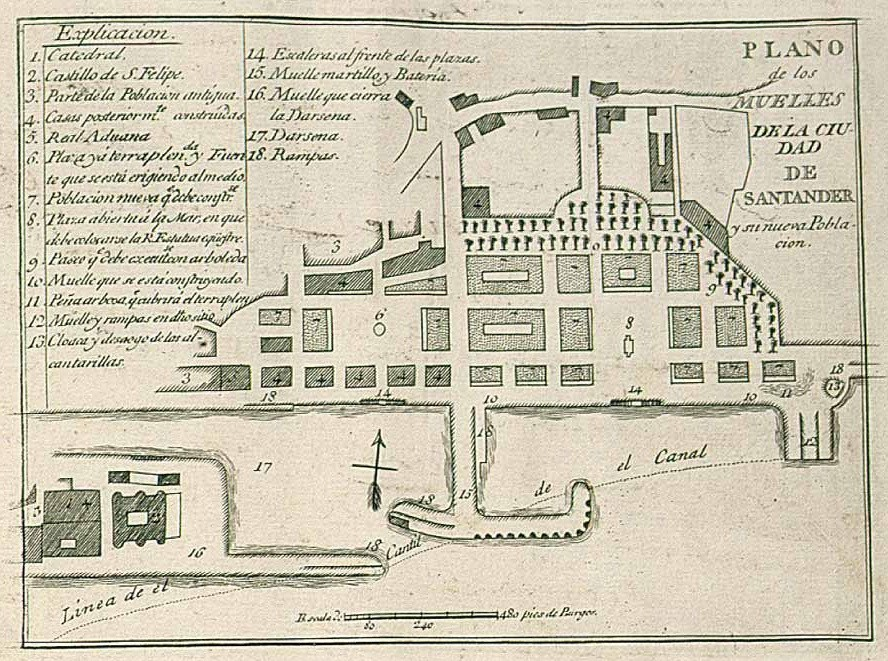 Map of the docks of the city of Santander and its new population. 1 Cathedral 2 Castle of San Felipe. 3 Part of the old Population. 4 House subsequently built. 5 Real Customs. 6 Terraced square and fountain that is being erected in the middle. 7 New population to be built. 9 Promenade that must be executed with trees. 10 Pier that is being built. 11 Rock ... that will cover the embankment 12 Dock and ramps in ... site. 13 Sewer and drainage of culvers. 14 Stairs to the front of the squares. 15 Hammer dock and battery. 16 Docks that closes the harbour. 17 Docks. 18 Ramps. Canal line.